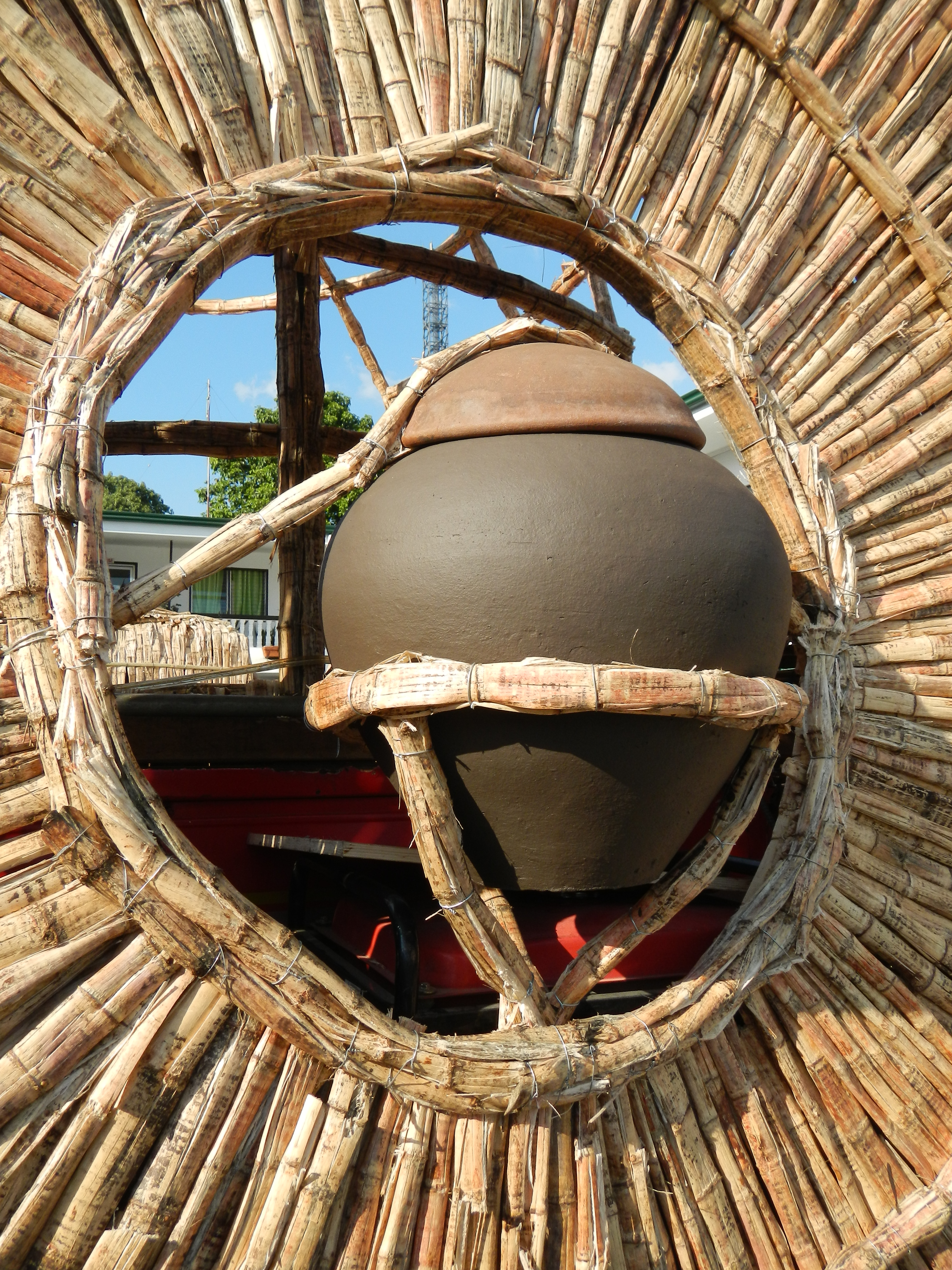 Photos of the Naguilian, La Union [1] 2511 La Union, Town Hall Complex, Compound, Police Station and Offices, with the giant Basi or wine float for the Aringay Festival, in Town Proper along the National Highway or Pan-Philippine Highway gateway to Baguio City.